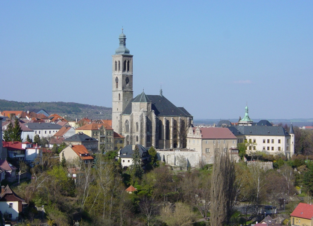 St. James Church in Kutná Hora, Czech Republic.